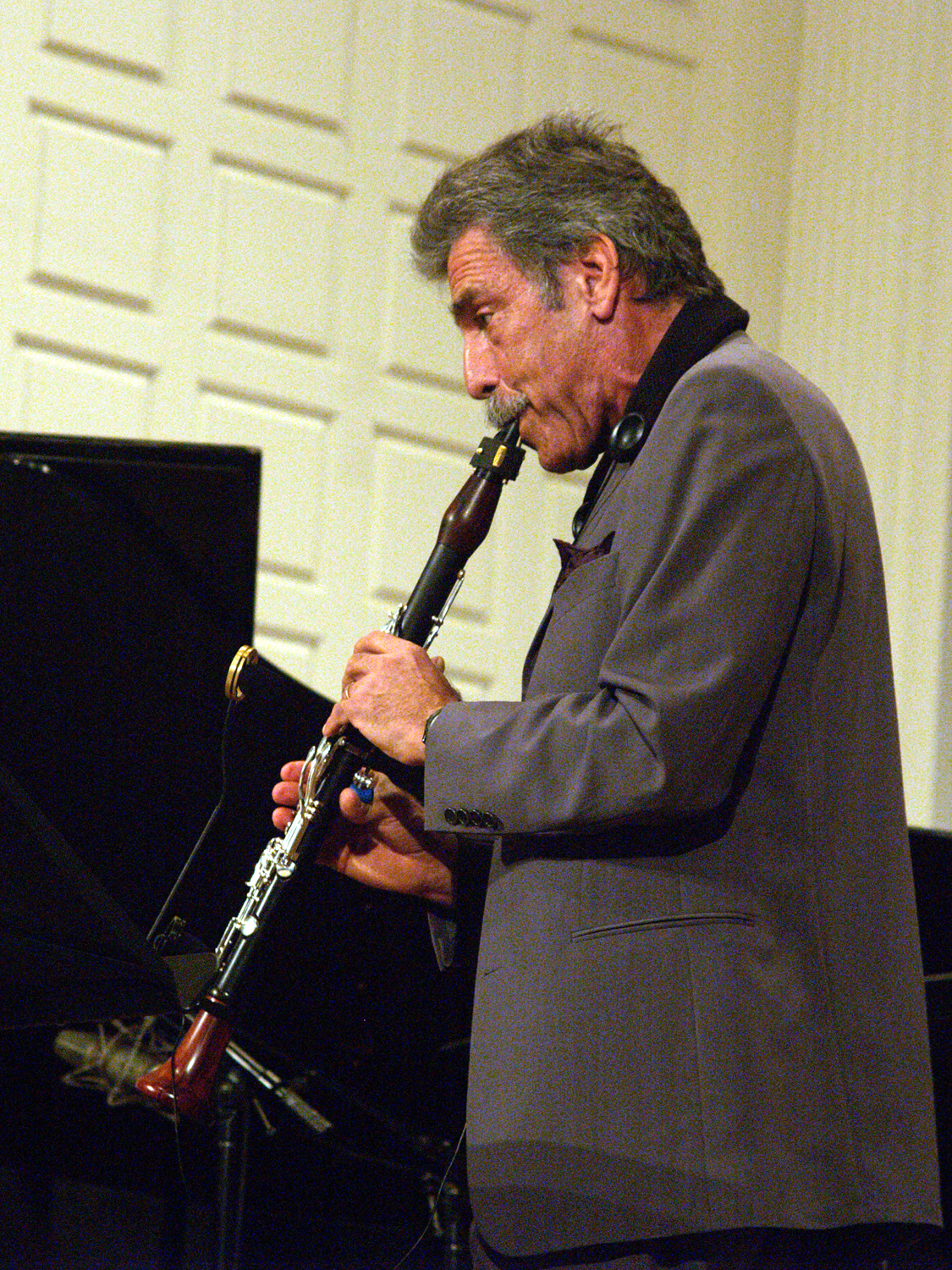 Jazz clarinetist Eddie Daniels performing live in concert in New Haven, CT on September 14, 2007.